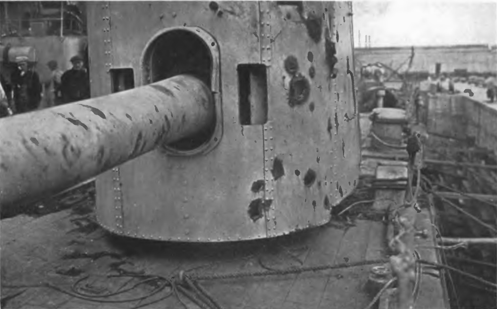 Photograph showing No, 7 6-inch gun, starboard, on forecastle deck, HMS Warspite. After the Battle of Jutland.